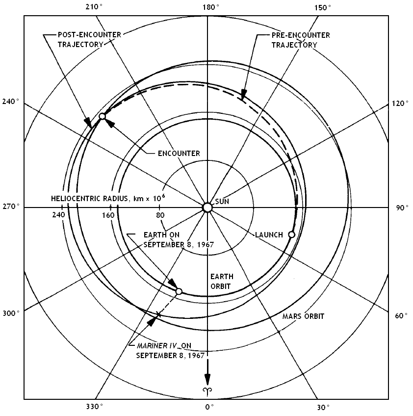 Full trajectory of Mariner IV